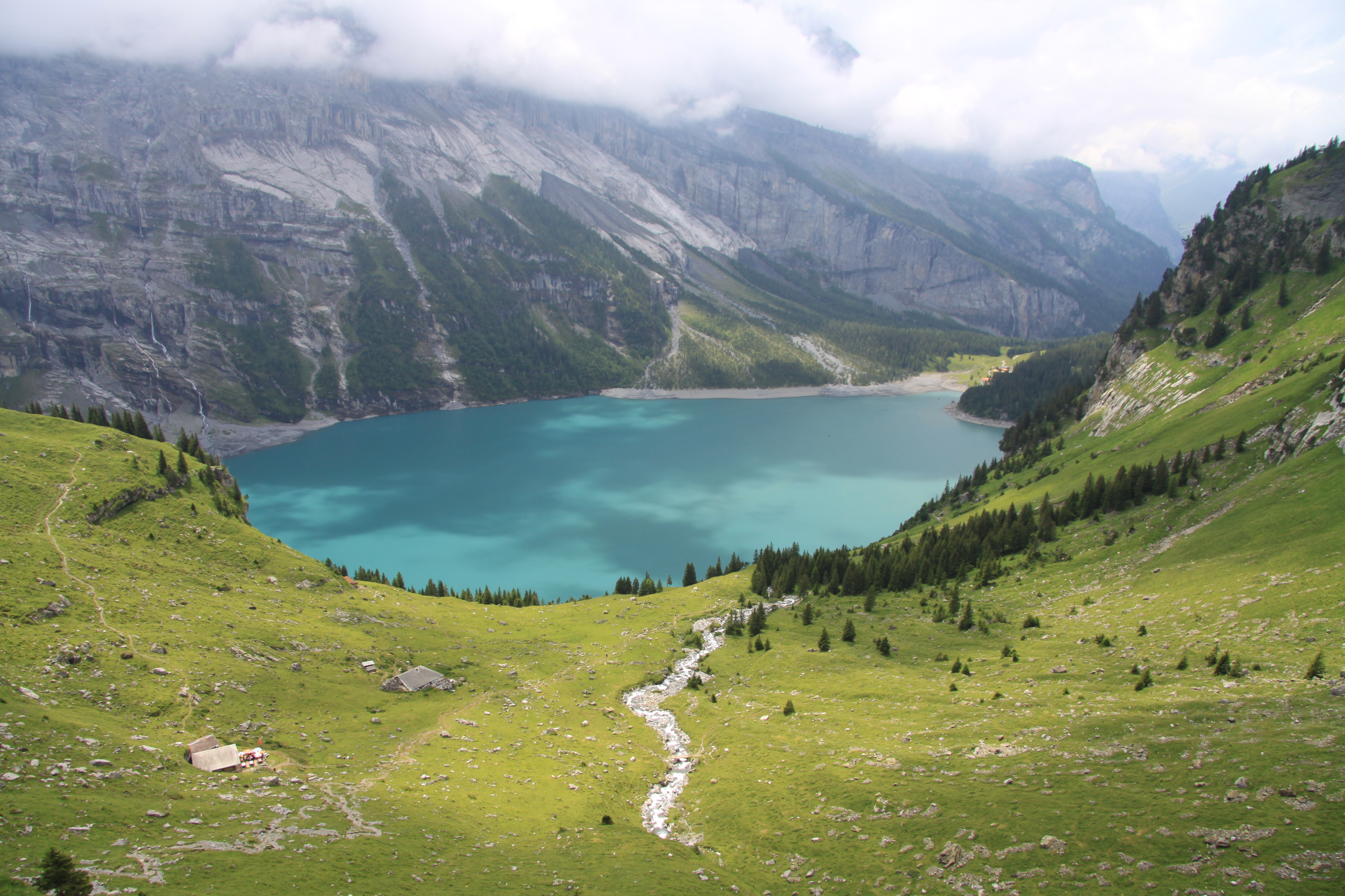 Oeschinen Lake above Kandersteg, in the Bernese Oberland, Switzerland. - Google Maps - Google Earth